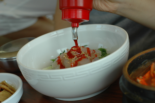 Korean food of Jeju Island, Korea in July, 2008.